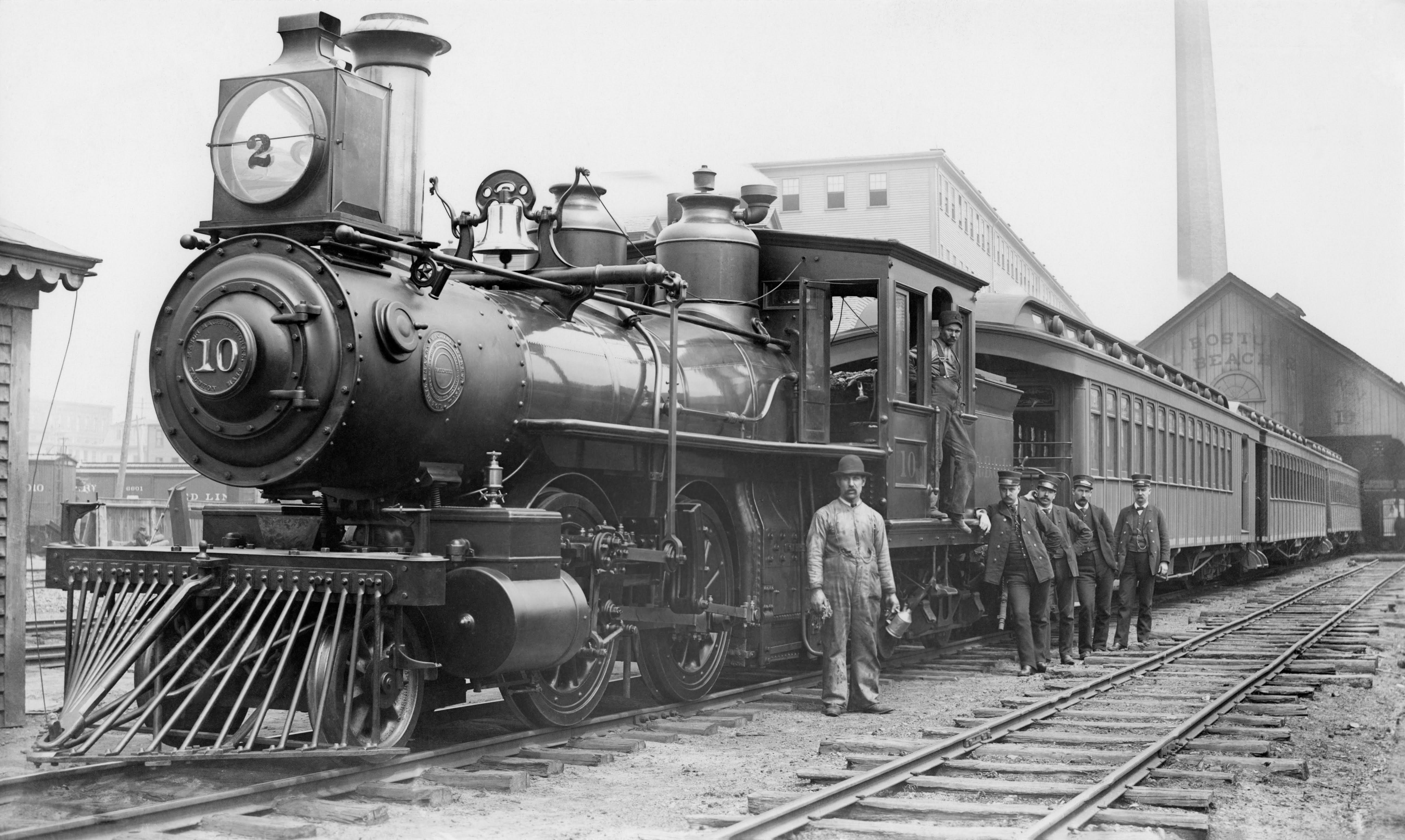 Boston Revere Beach and Lynn Railroad. Mason Machine Works Engine #10.